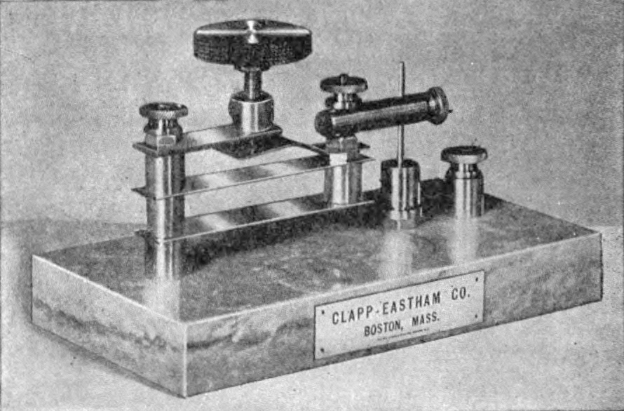 A precision crystal detector (sometimes called a cat's whisker detector) from around 1914, an obsolete radio component used in unamplified crystal radio receivers. This type was a professional unit used in sensitive receivers in wireless telegraphy stations. The vertical needle on the right gently touches the face of a crystal of iron pyrite (iron sulfide, FeS2, Fool's gold) contained in the cylindrical metal capsule below it, forming a diode which is used to rectify the received radio signal. Only certain sites on the crystal's face functioned as rectifying junctions, so the device had to be adjusted by trial and error to find a "sweet spot" before each use. The crude device was very sensitive to the contact between needle and crystal, so the spring loaded micrometer screw on the left can be used to adjust the pressure precisely.